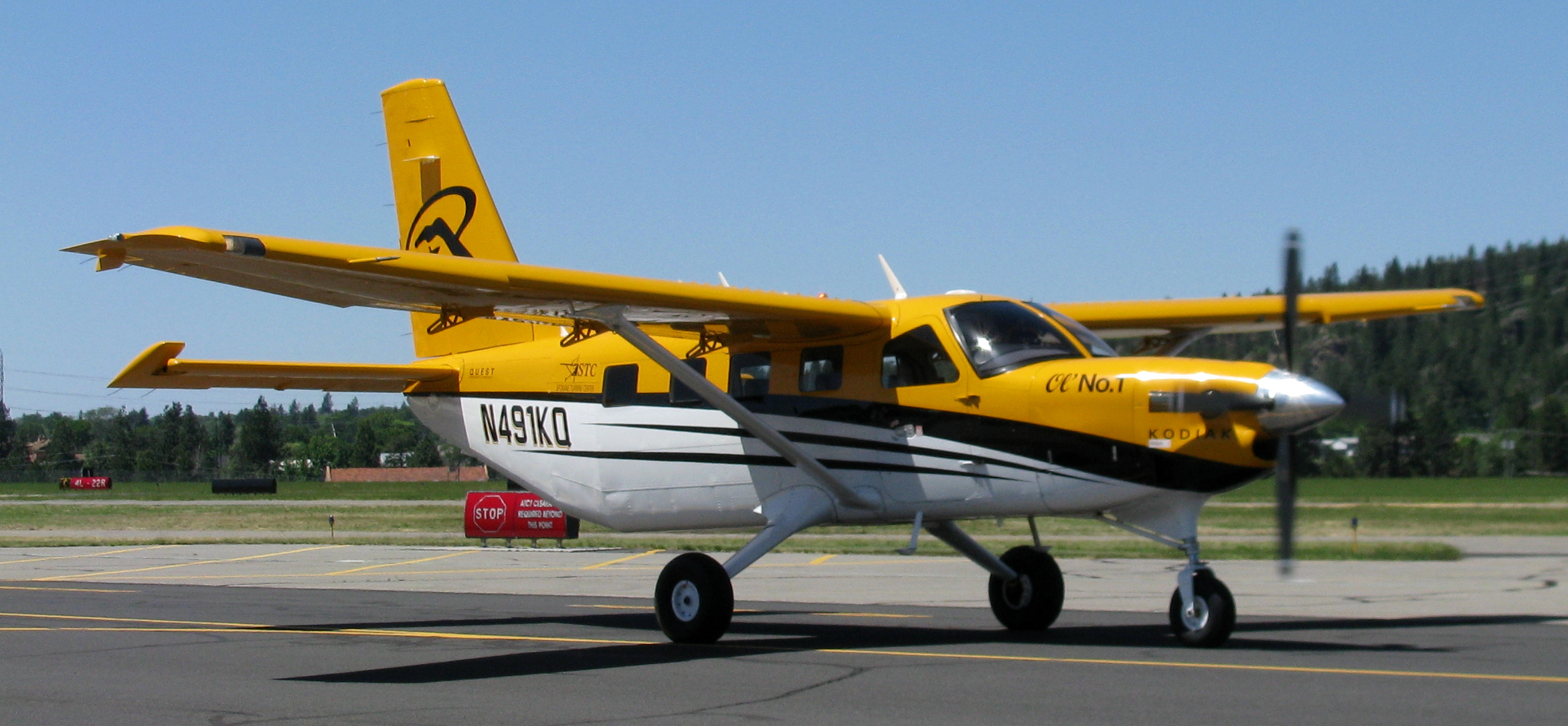 View of a Quest Kodiak 100 from the front-right corner.